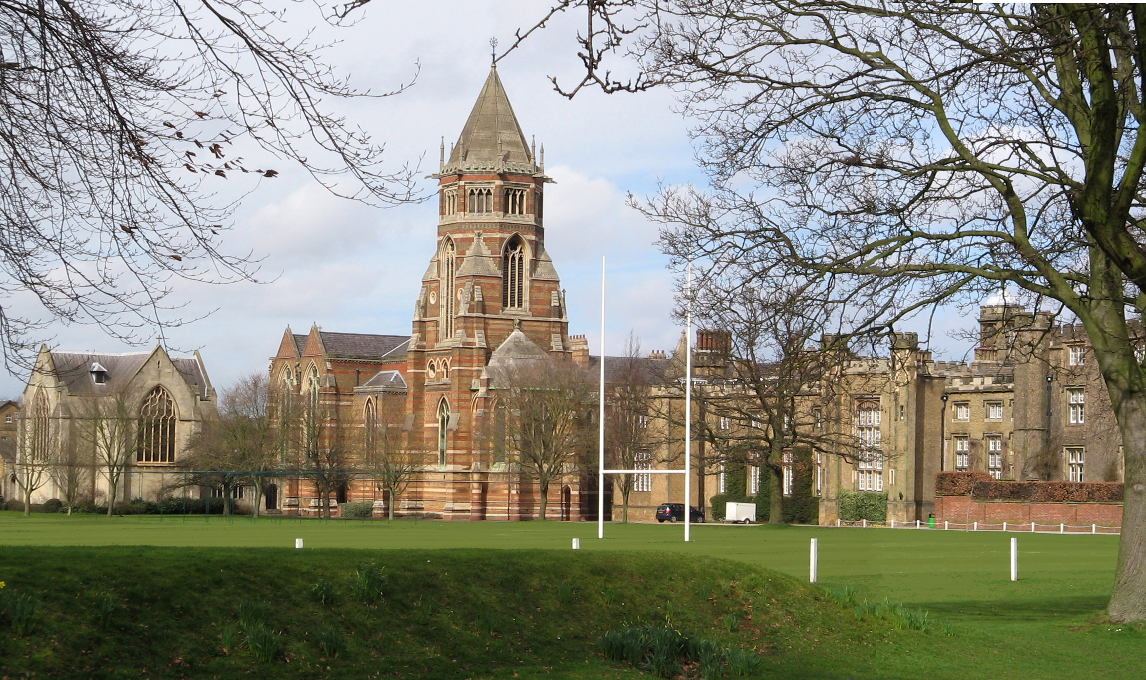 Rugby School from the south in 2006